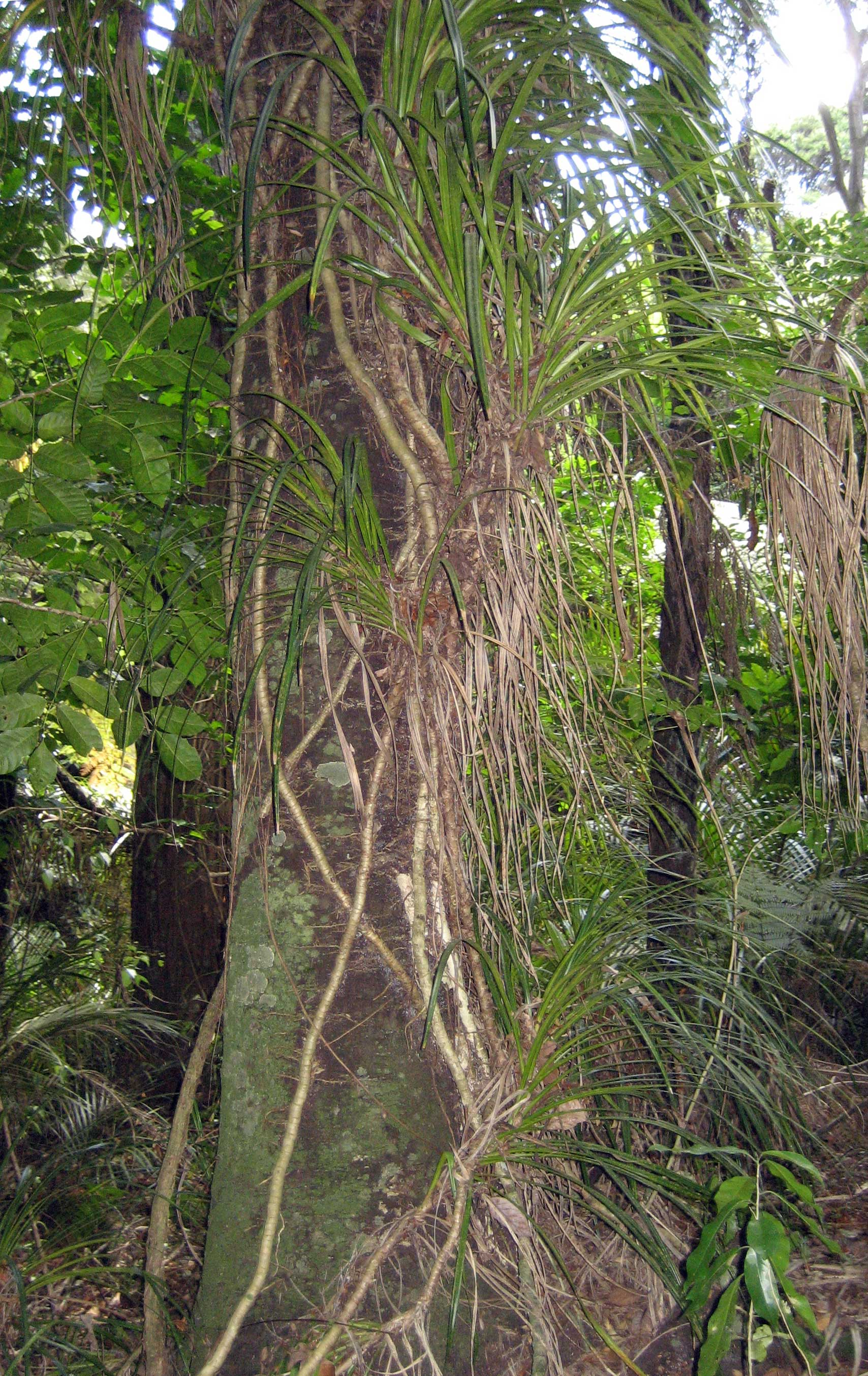 Kiekie (Freycinetia banksii) climbing the trunk of a Kohekohe tree, Auckland, New Zealand.